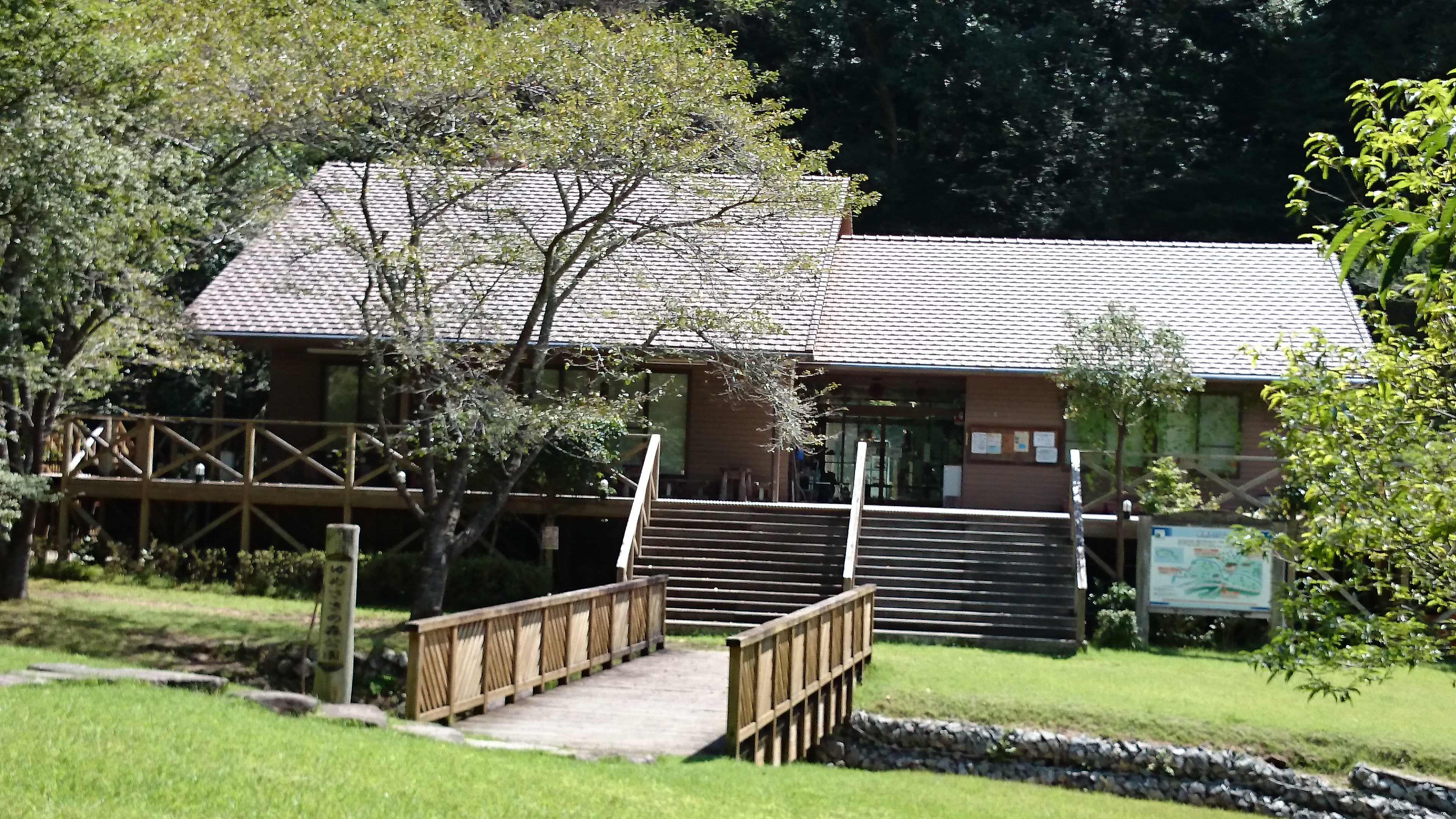 20150824 Park of Yumesaki-no-mori ゆめさきの森公園 〒671-2116 兵庫県姫路市夢前町寺2160-2 TEL：079-337-3220 FAX：079-337-3221